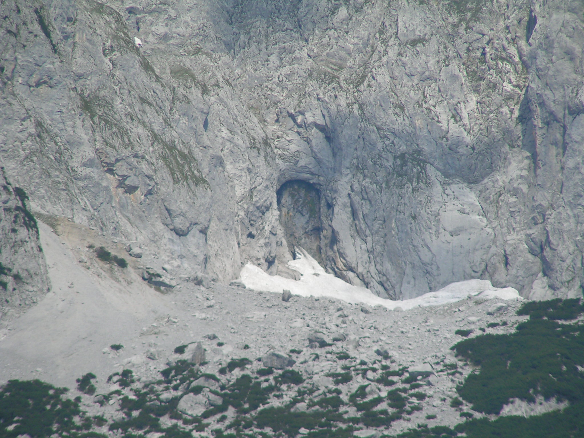 Grimmingtor; Mount Grimming; Austria